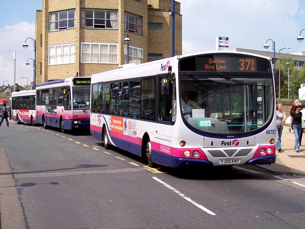 Three First West Yorkshires buses queue at a stop outside Huddersfield bus station. First in line is a Volvo B7RLE with Wright Eclipse Urban body.